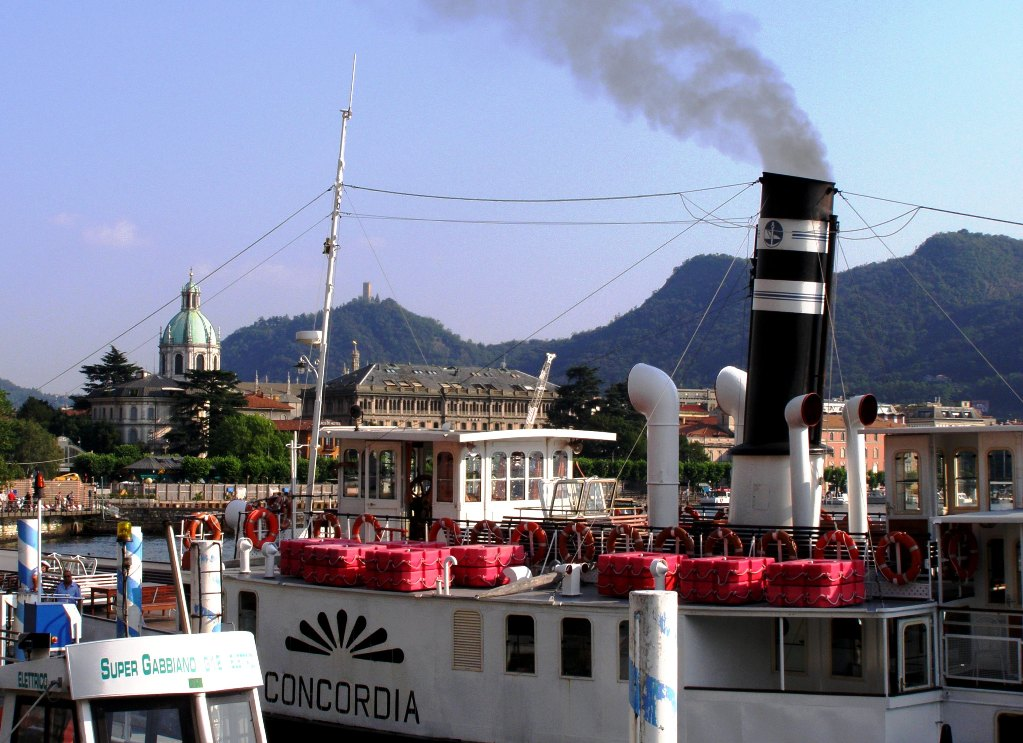 View of Como (Italy).